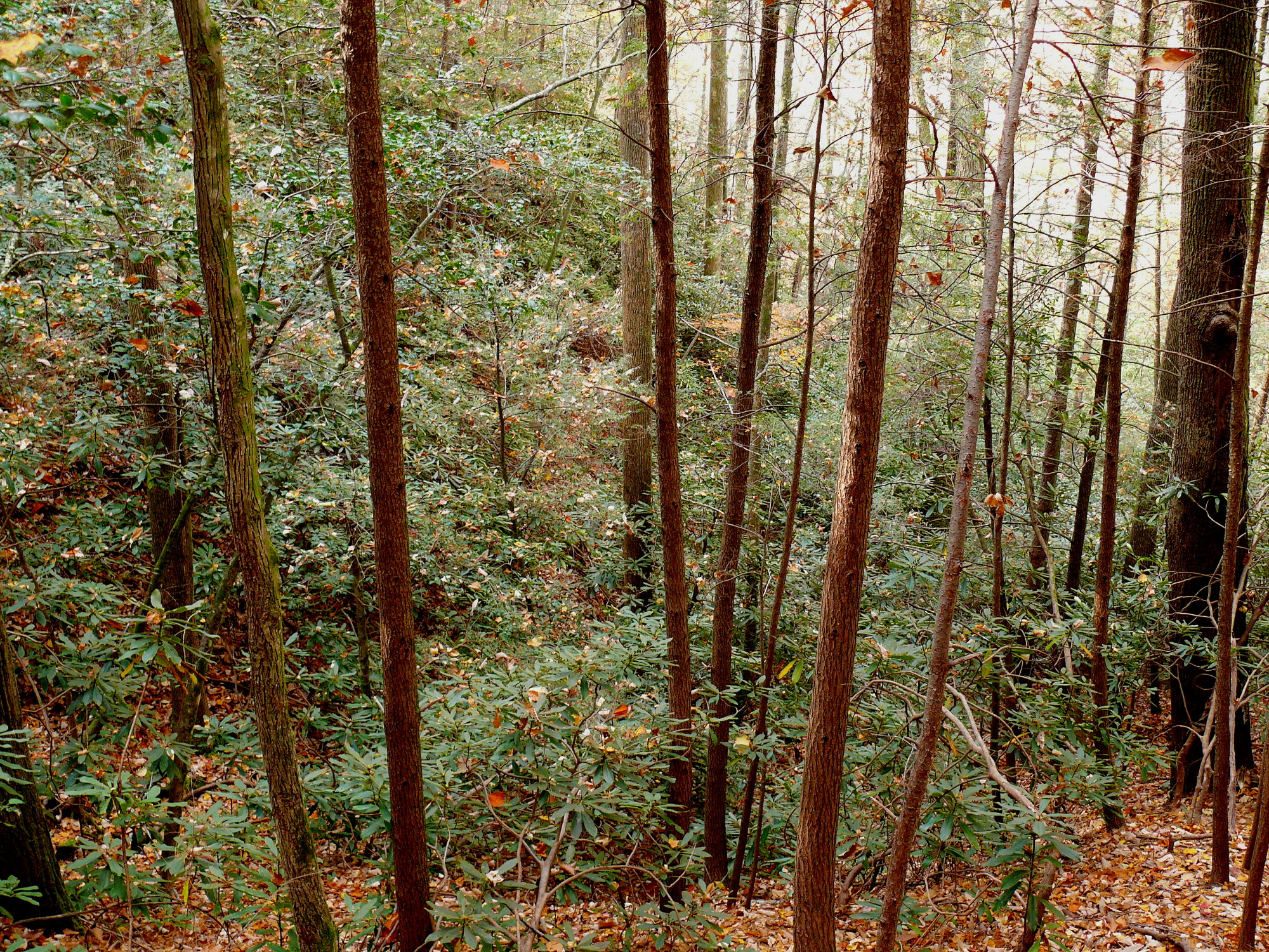 Rhododendron maximum — Great rhododendron. Native stands of Great rhododendrons grow in dense, nearly impenetrable thickets in the Appalachians, and can cover miles of forest floor. Local hunters and hikers often refer to these thickets as "laurel hells", because of the difficulty of movement through the plants, and how easy it is to become disoriented and lost in an area where visibility is so severely restricted. Credits Photo taken with a Panasonic Lumix DMC-FZ50 in Burke County, NC, USA.